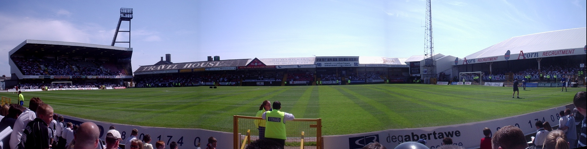 Panoramic shot of Swansea City FC's Vetch Field moments before the kick off of the last ever league match to be played at the ground.